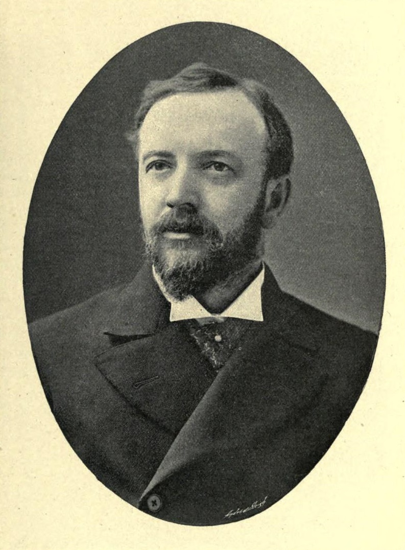 Portrait of Henry Arthur Jones